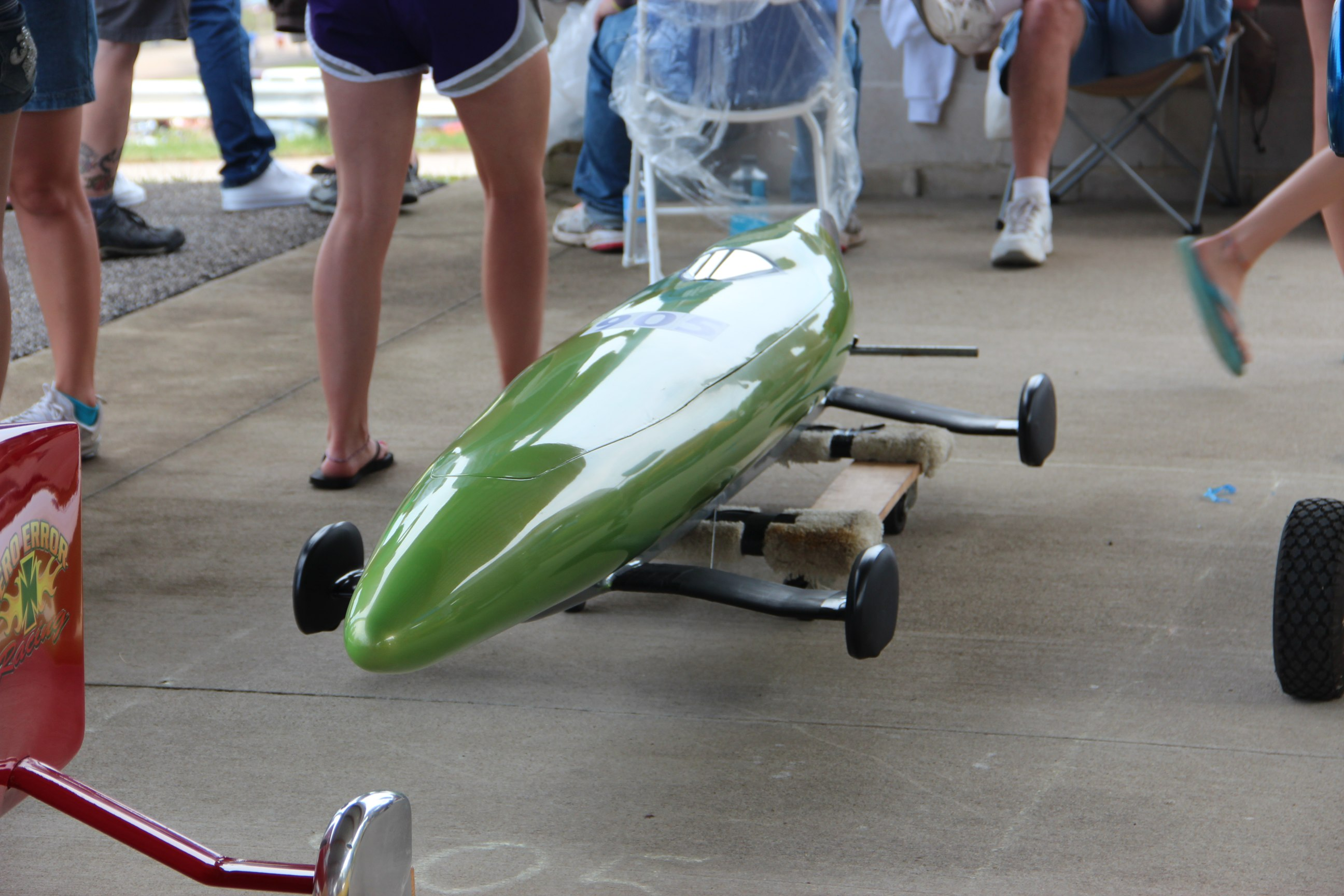 2011 winning AAUSC Entry car #905, CSSN racing